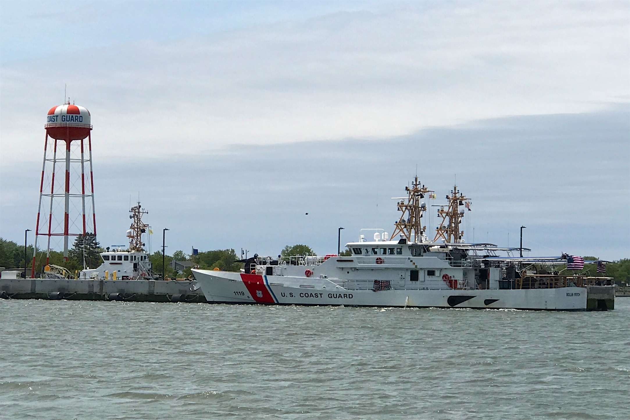 USCG Cutter Rollin A. Fritch at the United States Coast Guard Training Center in Cape May, New Jersey.